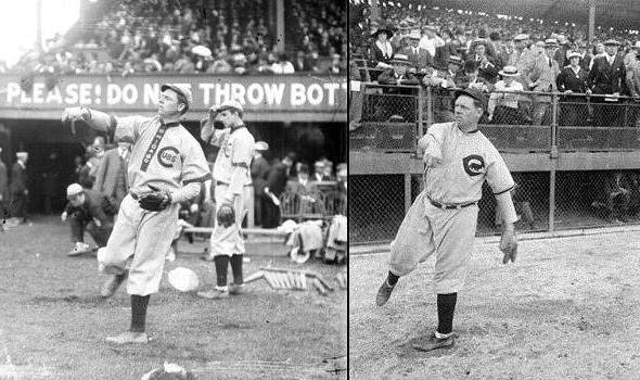 This is a crop-and-splice of two photos taken from the Chicago Daily News online archive. The one on the left was taken in 1909 in a Cubs road uniform, at what looks to be South Side Park, home of the White Sox, hence probably during the annual City Series. The one on the right was taken in 1916, in a Cubs home uniform, at Weeghman Park (now Wrigley Field) in Brown's last big league season.